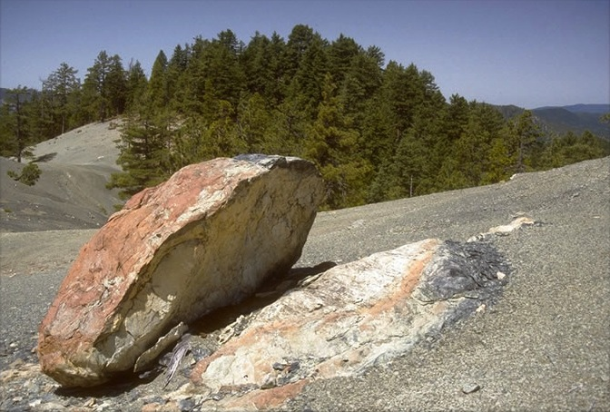 Serpentine Ridge in the Kalmiopsis Wilderness, part of the Rogue River-Siskiyou National Forest in southwest Oregon.